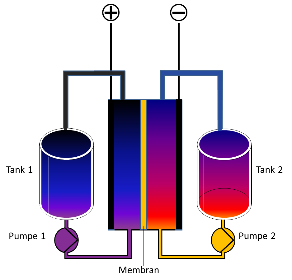 Schematic diagram of a redox flow cell of a flow battery and the corresponding tanks which store the solutions. In the electrochemical cells, chemical conversions take place by oxidation or reduction. This is indicated by the change of the colour.